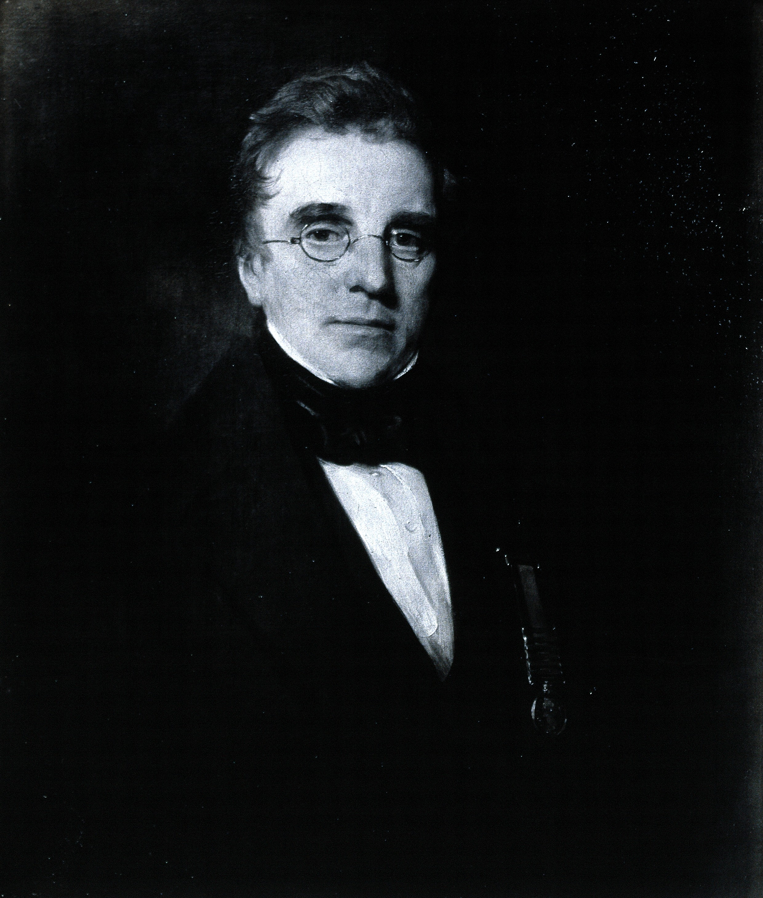 David MacLagan. Photograph after a painting presented 1856. Iconographic Collections Keywords: portrait photographs